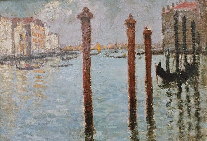 Painting by Charles Houben Oil on canvas Vue of Venice